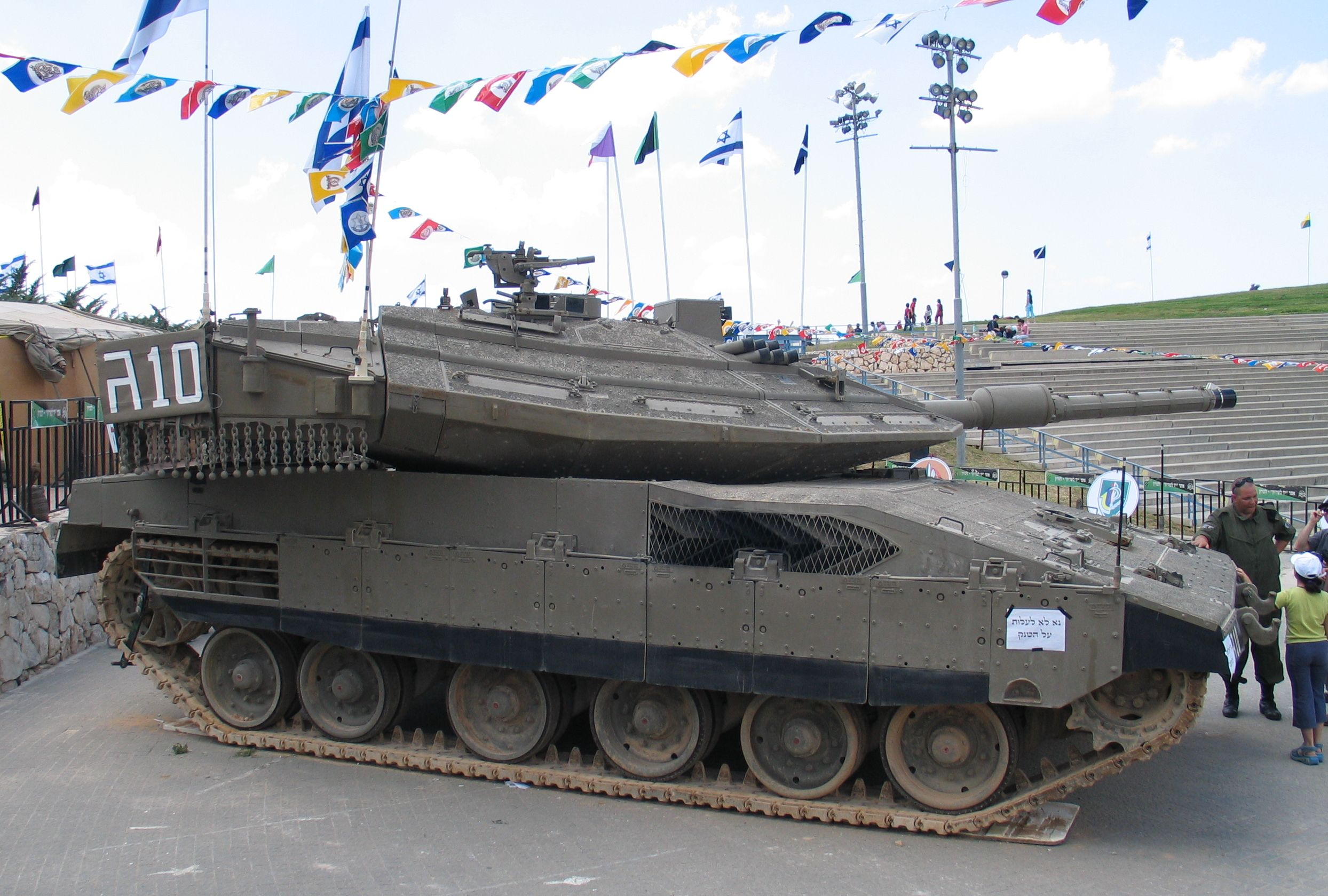 Merkava 4 MBT. Independence Day exhibition at Yad la-Shiryon Museum, Latrun, Israel.